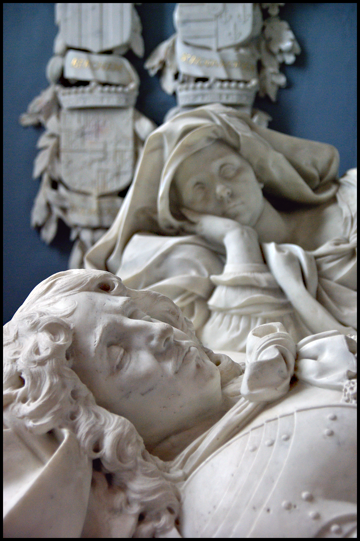 Katwijk aan den Rijn, Netherlands - Church (Dorpskerk) - The Tomb of Lyere.